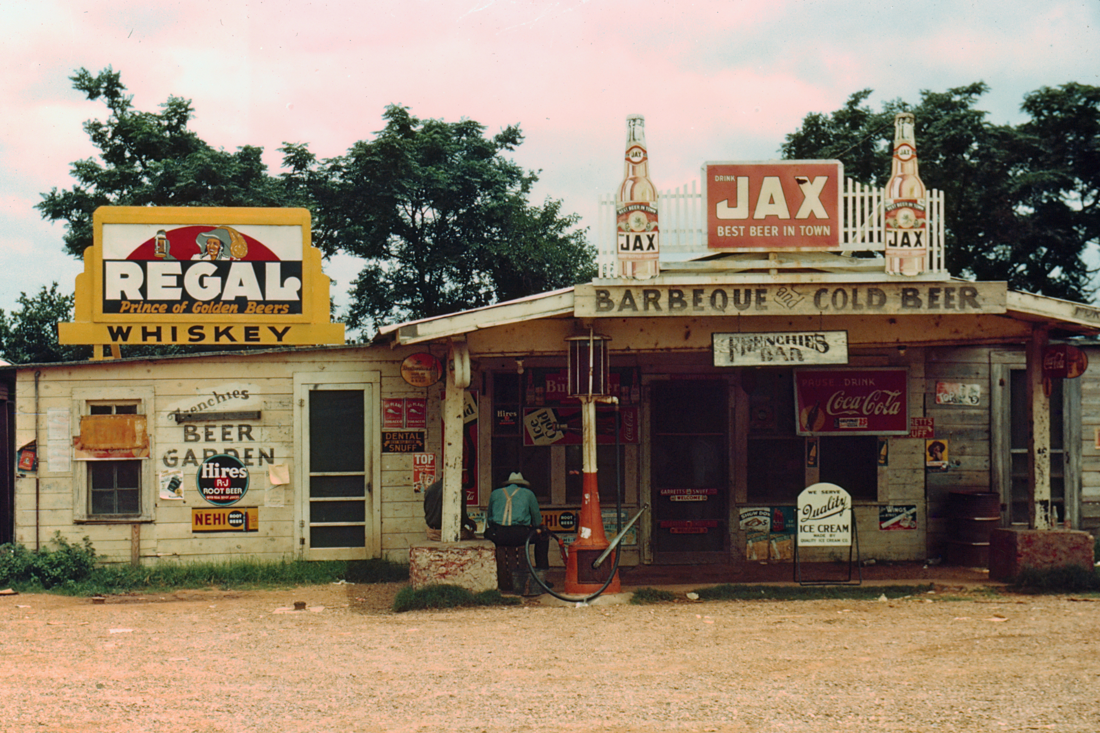 A cross roads store, bar, "juke joint," and gas station in the cotton plantation area, Melrose, La.